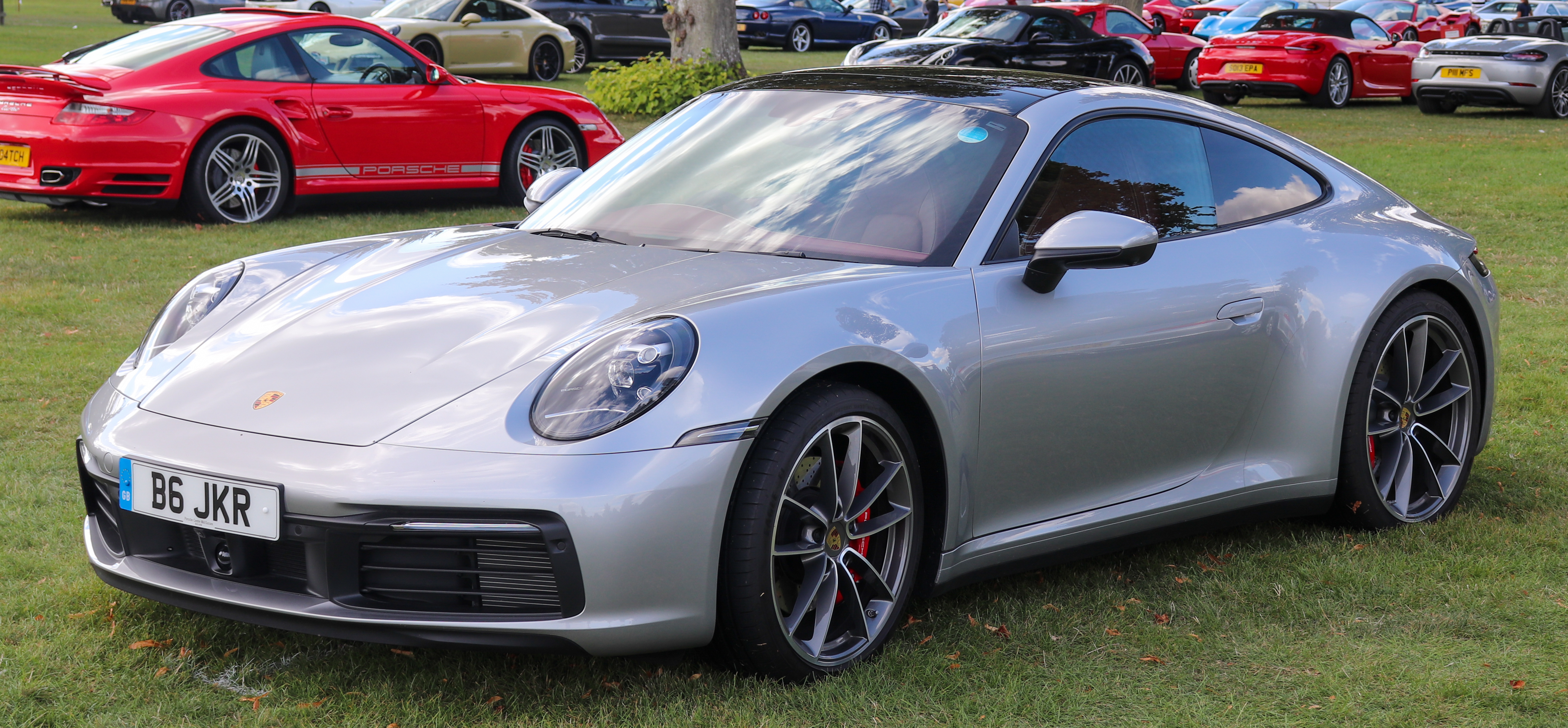 2019 Porsche 911 Carrera S S-A 3.0 Front Taken at the Salon Privé Concours d'Elegance Classic Car Motor Show 2019, Blenheim Palace